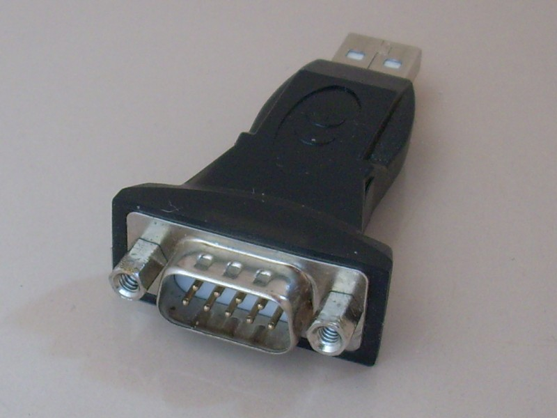 RS-232 to USB Serial Adapter